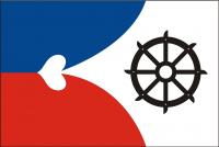 vlajka obce Lipovec